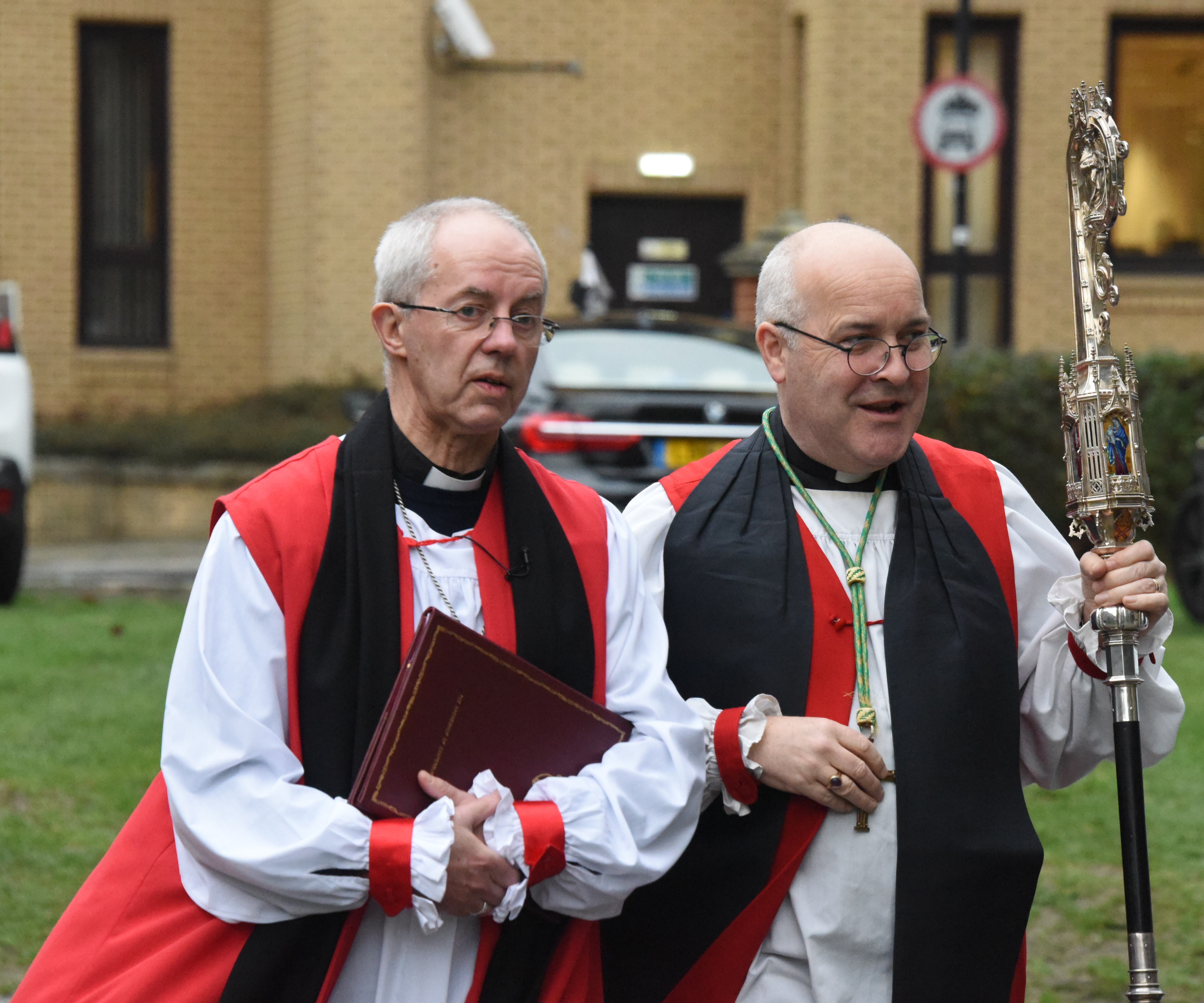 Justin Welby, Archbishop of Canterbury (left) and Stephen Cottrell, Bishop of Chelmsford